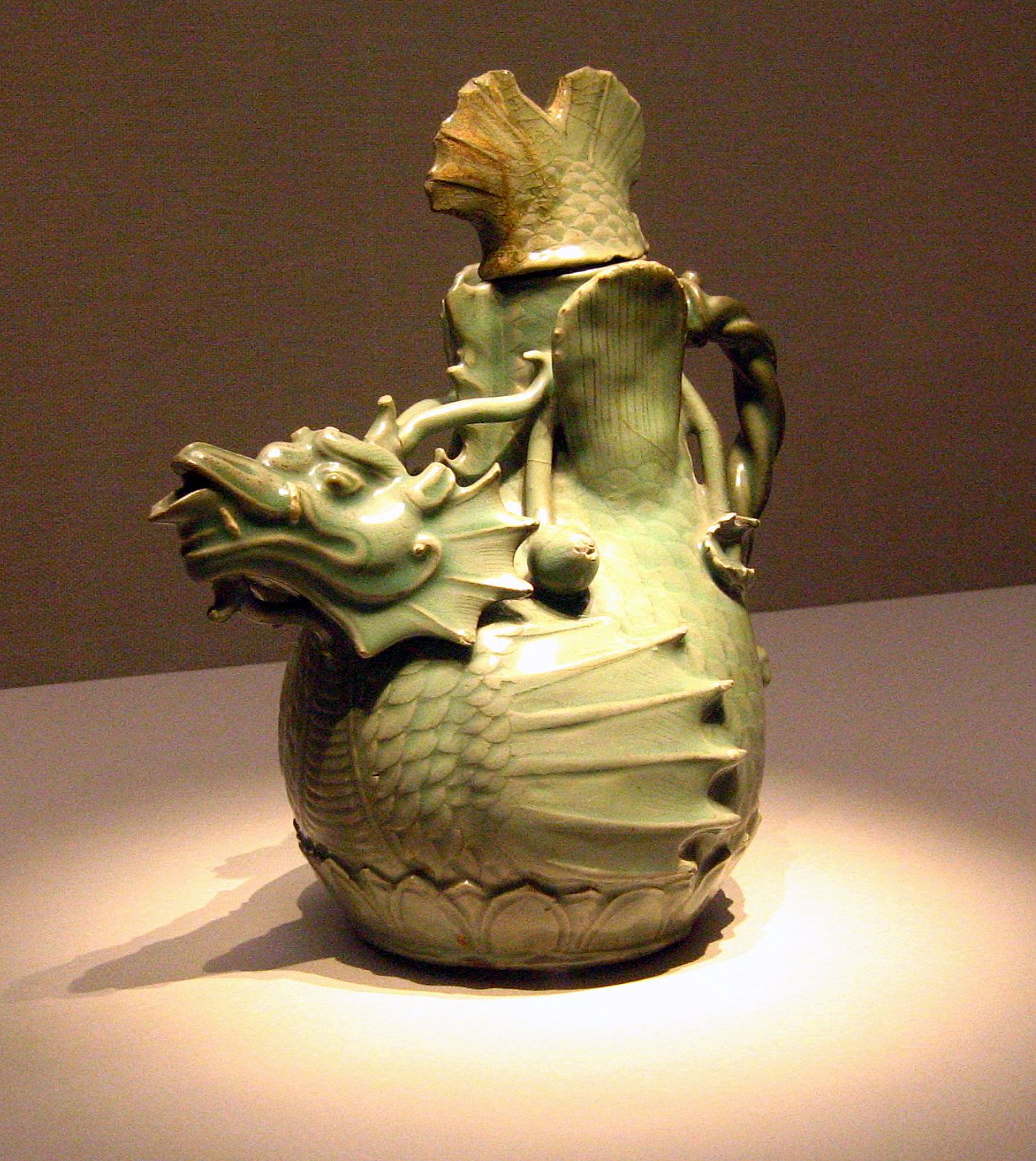 Goryeo-era Celadon incense burner exhibited at National Museum of Korea, in Yongsan-gu, Seoul. It is the 61st National treasures of South Korea